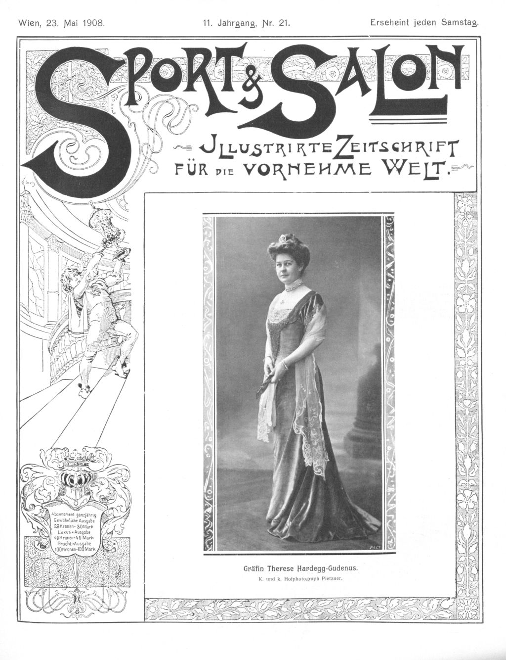 Front cover of Sport & Salon (weekly, Vienna, 1888-1918 + 1924) from 1903-05-23 (featuring Countess Therese Hardegg-Gudenus)